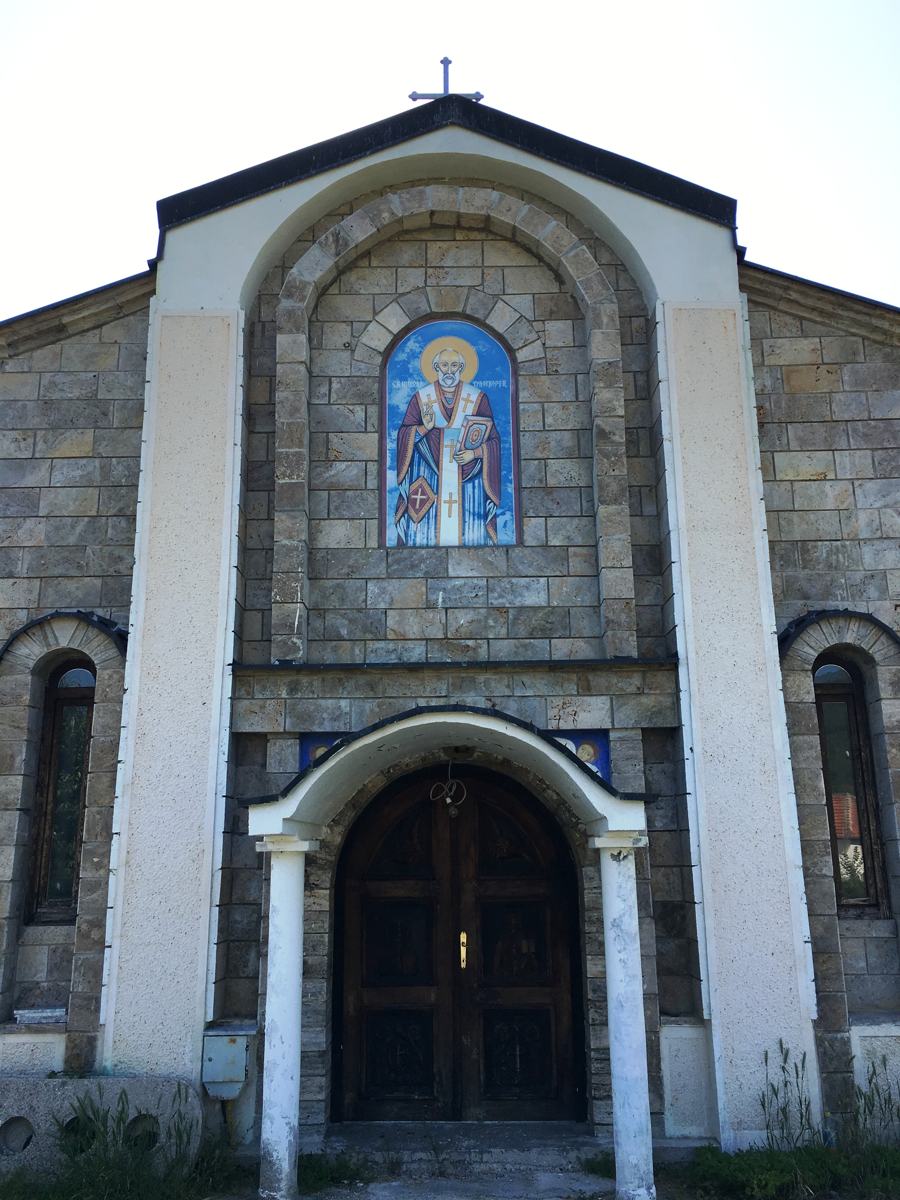 The front view of the St. Nicholas Church in the village of Crešnevo